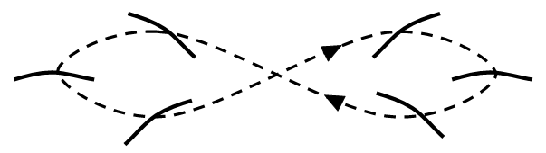 Movement of a paddle when sculling.